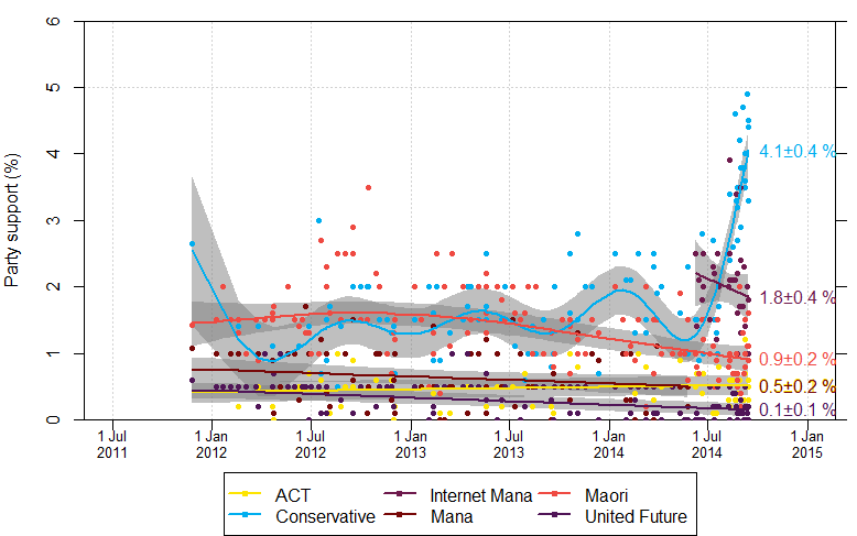 Graph showing support for political parties in New Zealand since the 2011 election, according to various political polls. Data is obtained from the Wikipedia page, Opinion polling for the Next New Zealand general election